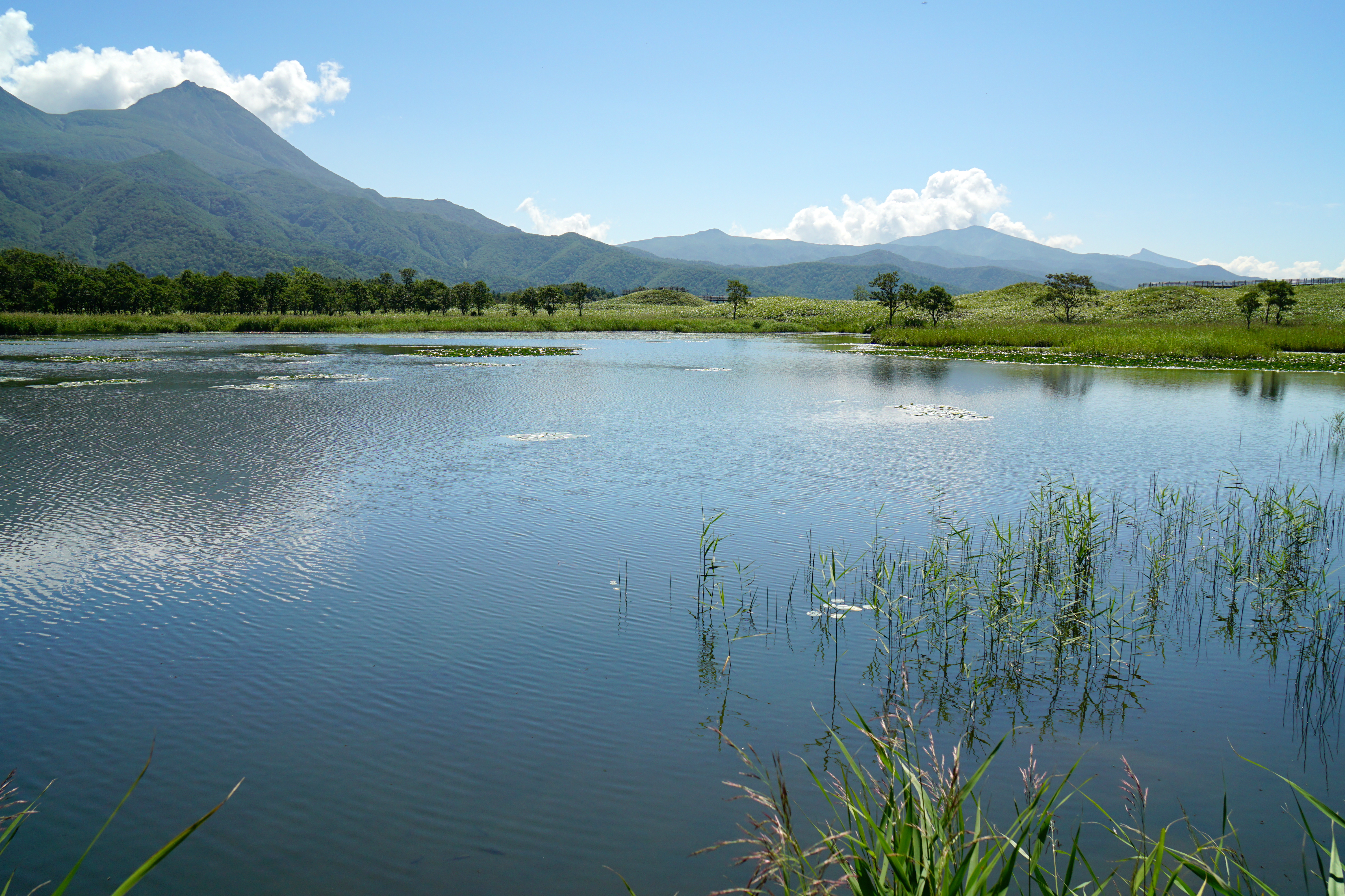 Lake Ichiko of Shiretoko Goko Lakes in Shari, Hokkaido prefecture, Japan.